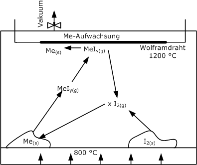 Crystal bar process